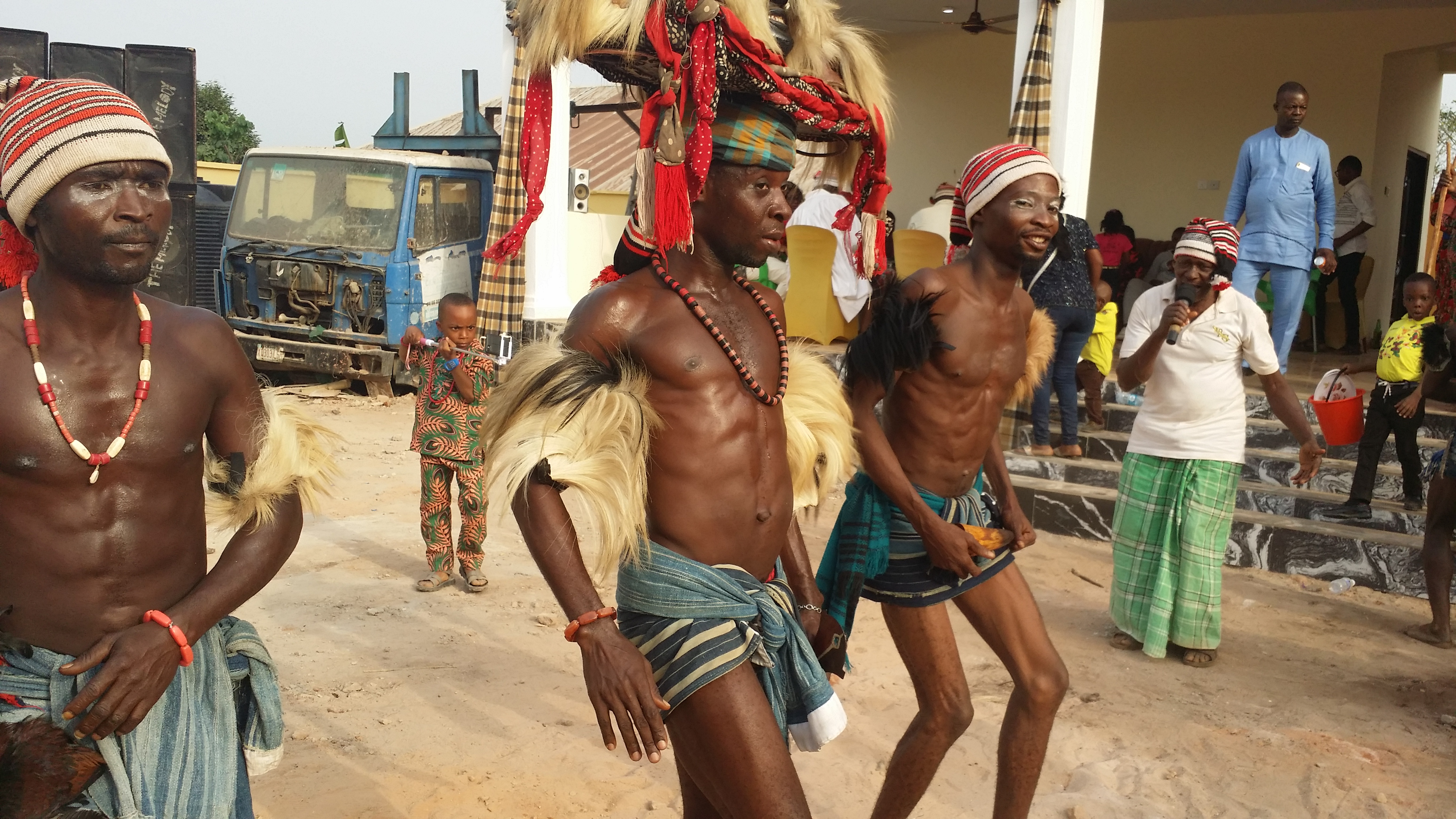 This photo like the first one also shows warriors who are celebrating victory from war it is called the ohafia war dance the head of the king of the defeated land is usually carried by the chief warrior on their head as an evidence.T here is no real head here because time has passed for wars to be conducted so these people are actually performers representing our old tradition This is an image with the theme "Play" from: Nigeria